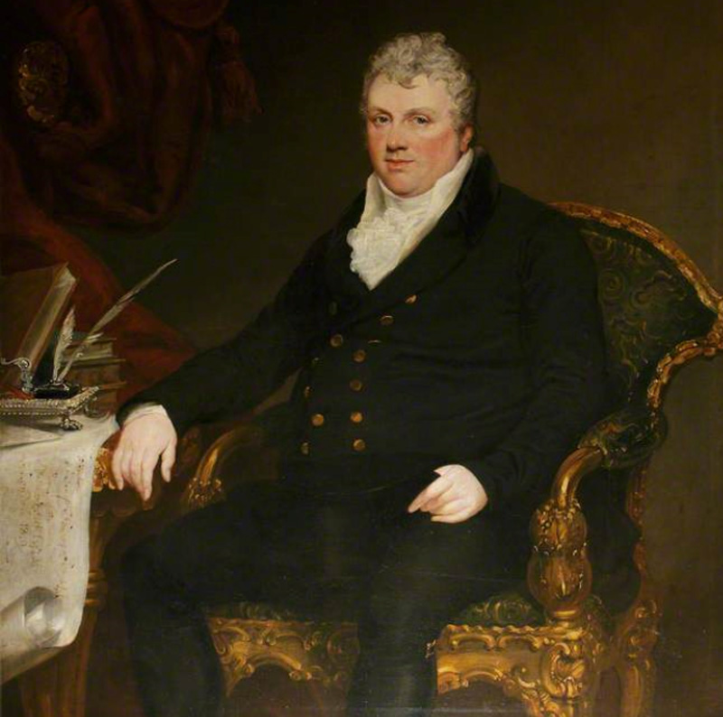 Matthew Russell of Hardwick Hall, Sedgefield, County Durham.